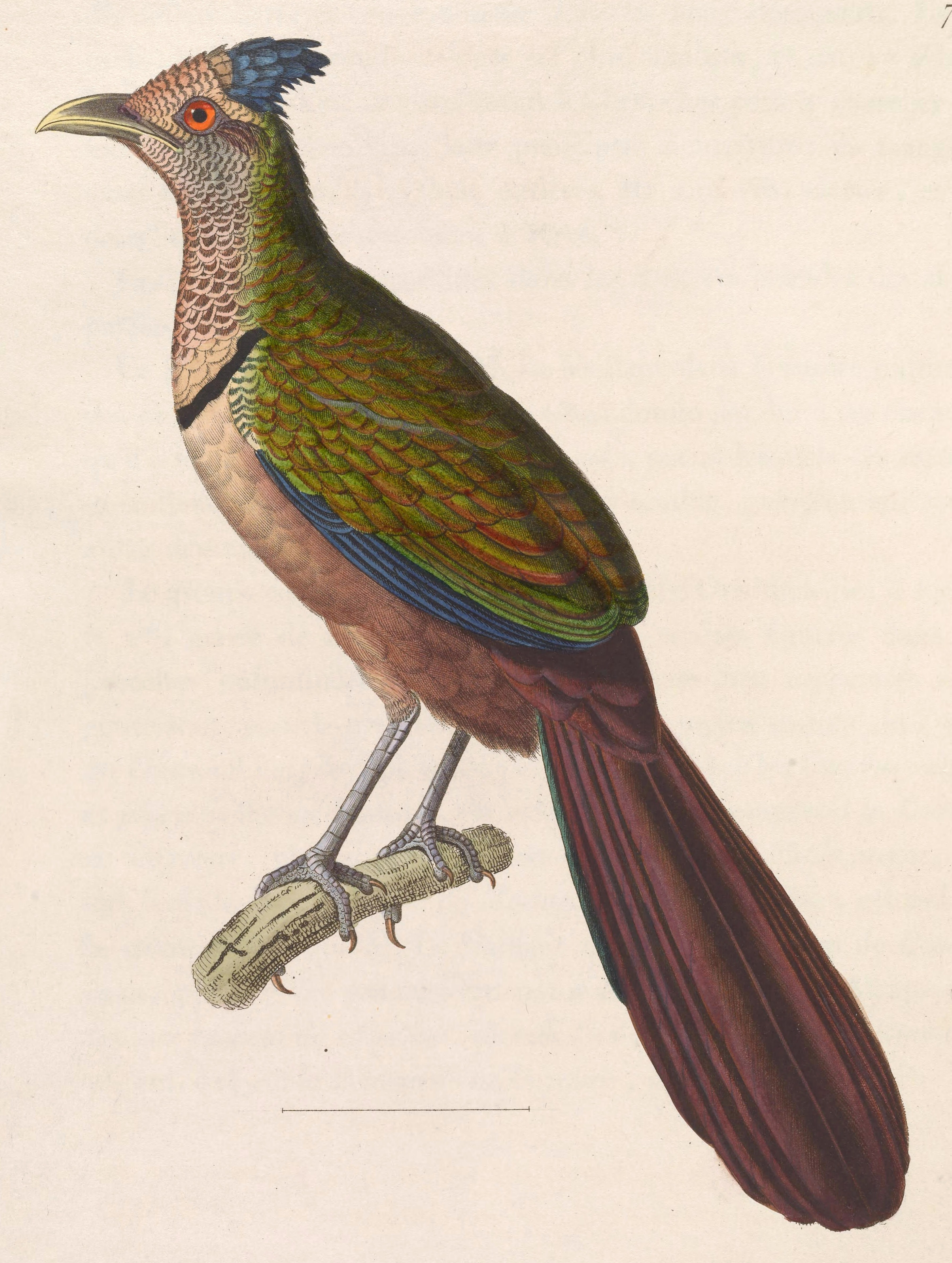 « Coccyzus geoffroyi » = Neomorphus geoffroyi (Rufous-vented Ground Cuckoo) - adult